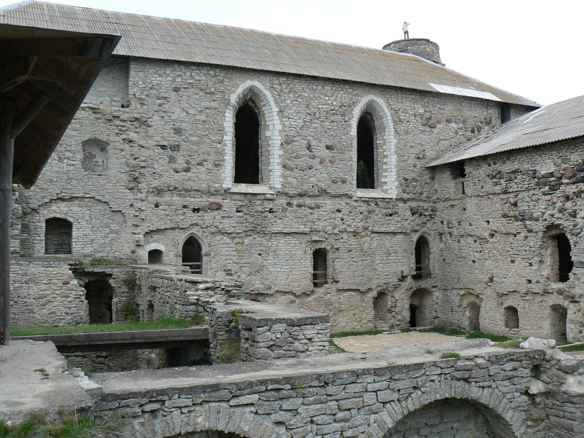 Padise cloister, Estonia